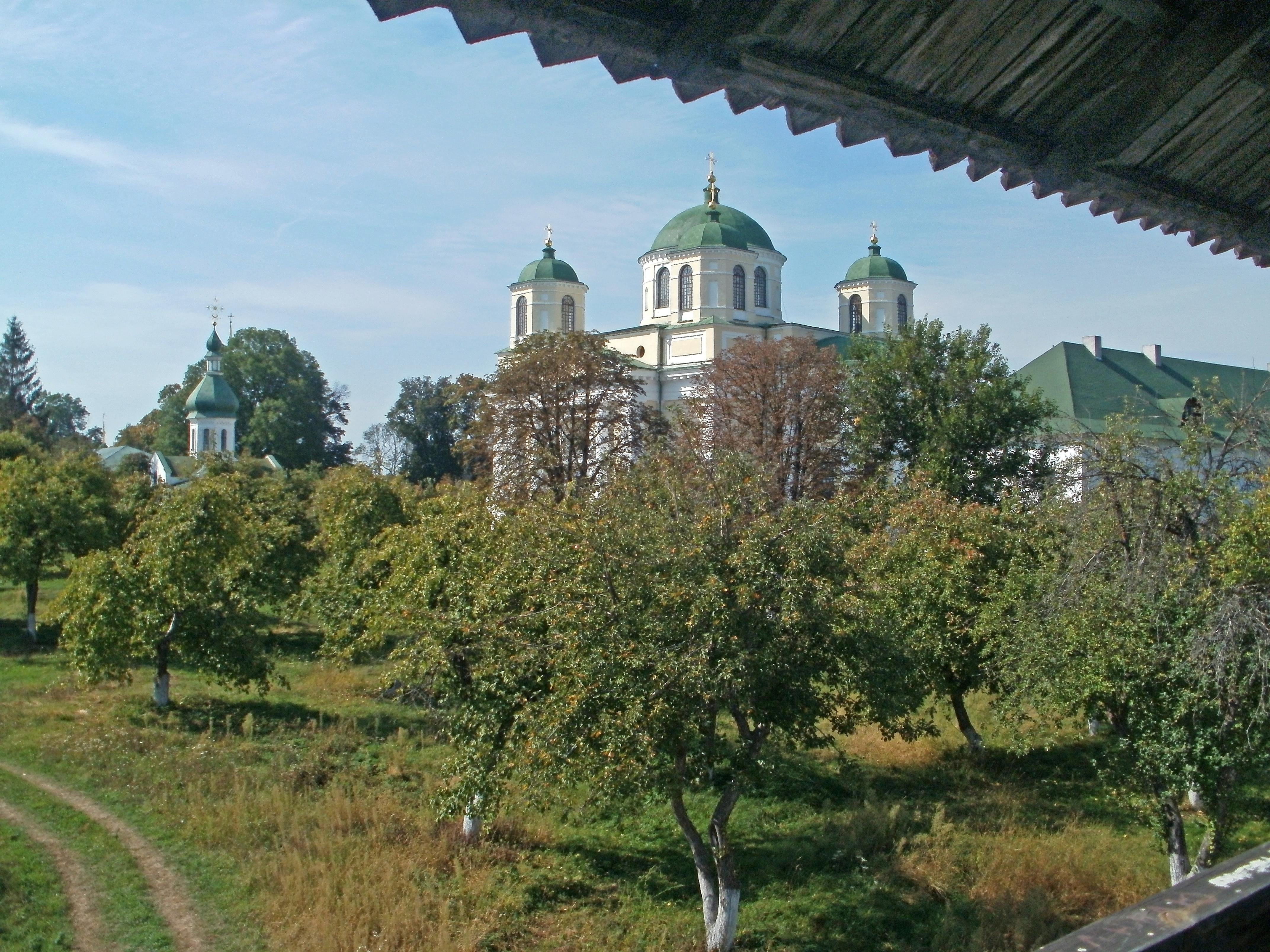 Our Savior and Transfiguration Monastery, Novhorod-Sivers'kyi, Chernihiv Oblast, Ukraine